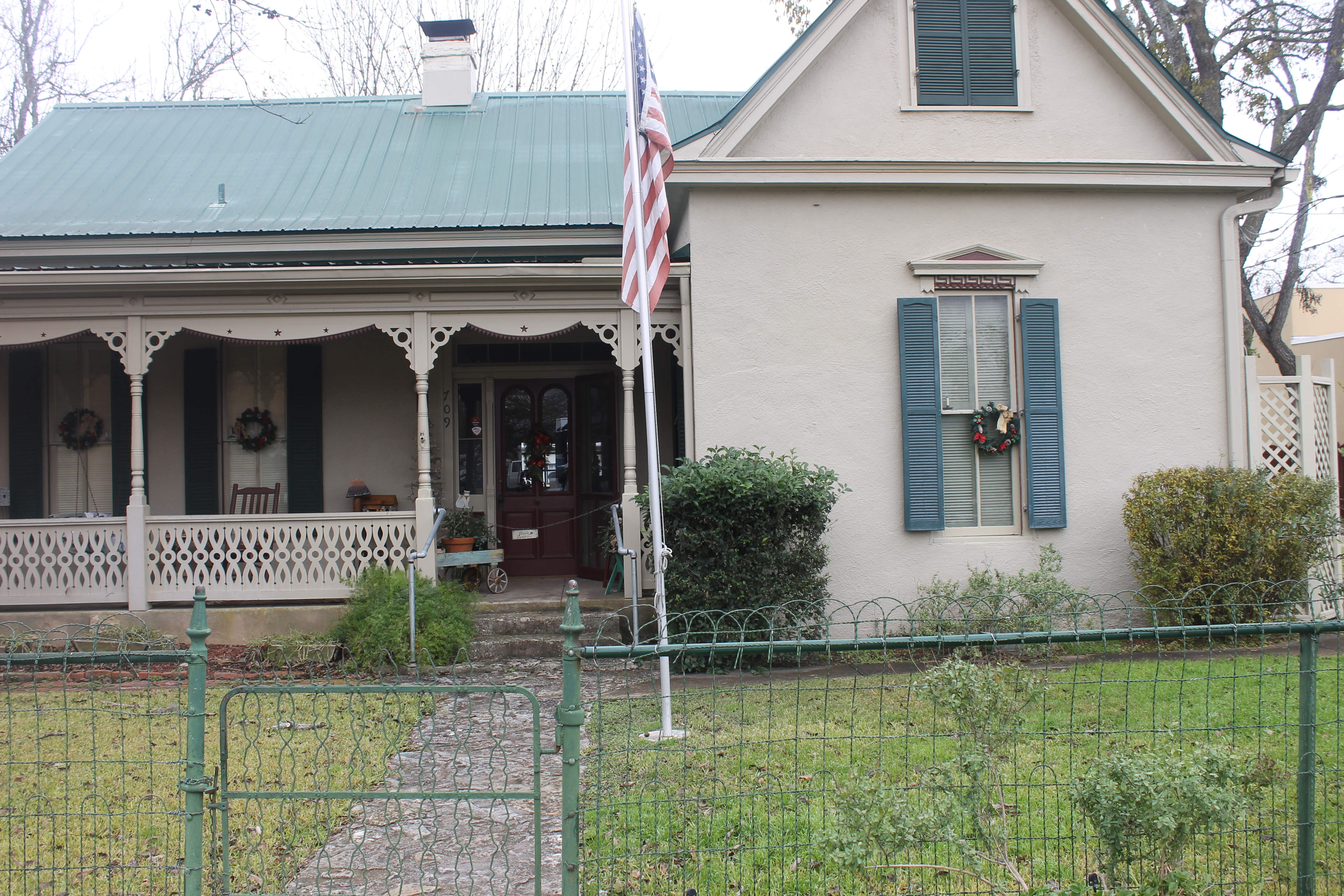 Peter Joseph Ingenhuett (1833-1923) was an early settler of Comfort, TX, and was the federal postmaster and involved in several businesses. This is his restored house from c. 1888.